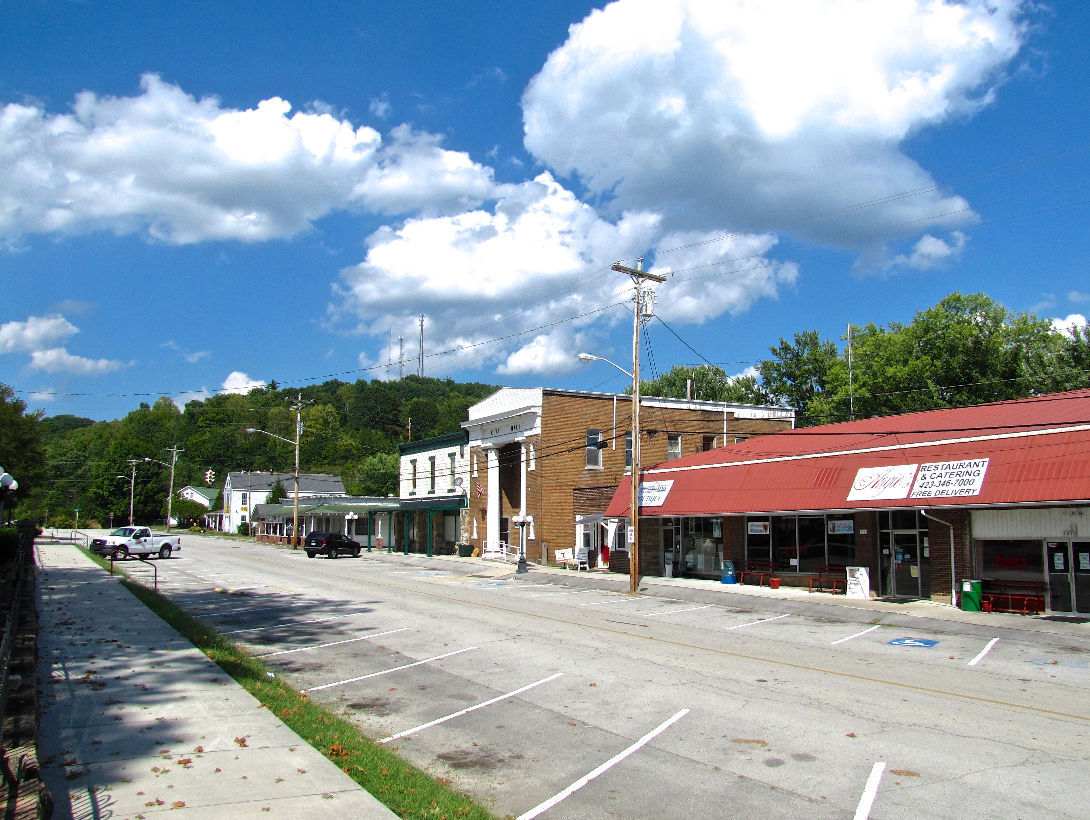 Buildings along Kingston Street in Wartburg, Tennessee, United States.